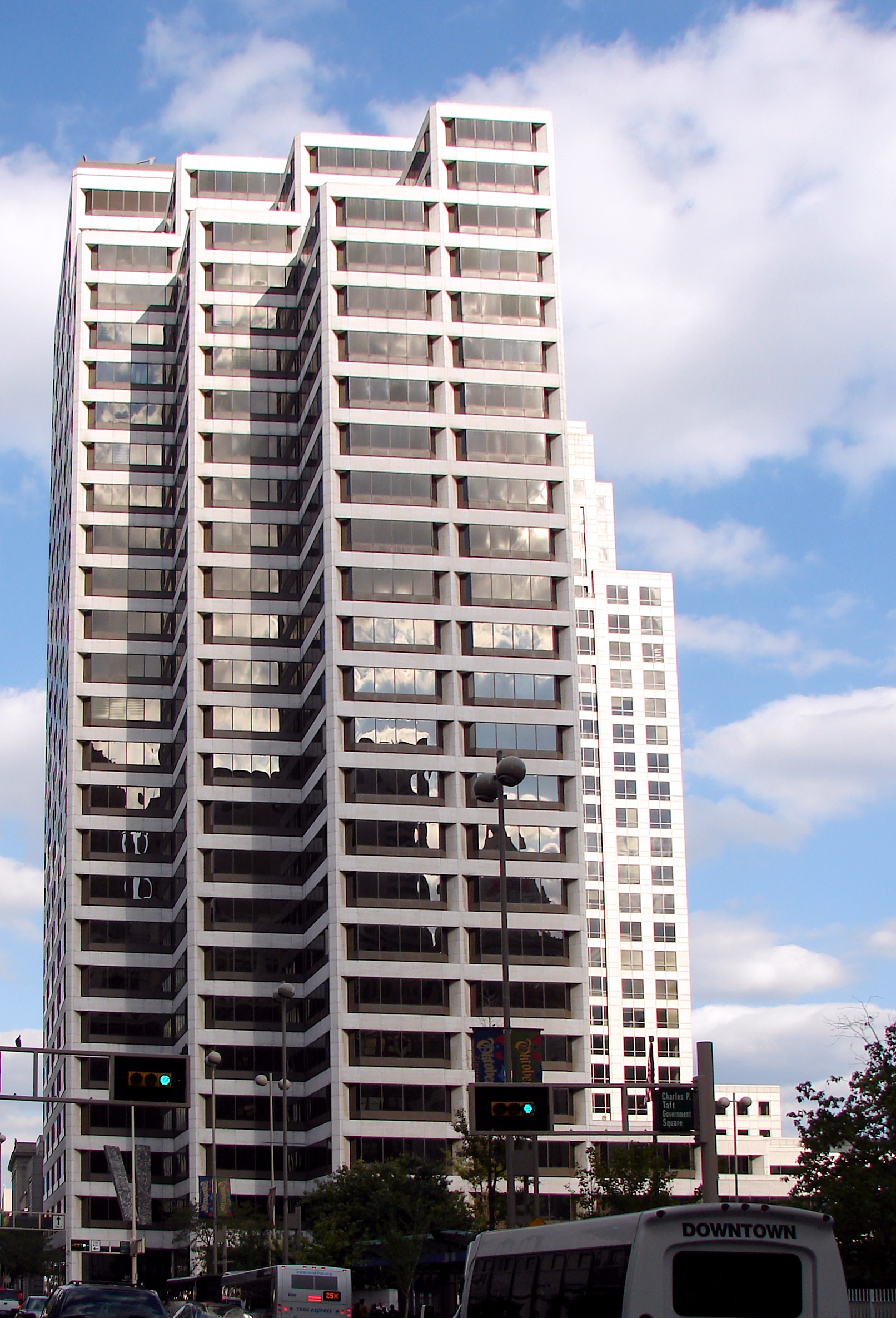 PNC Center building in downtown Cincinnati Ohio, viewed from the west near Fountain Square.